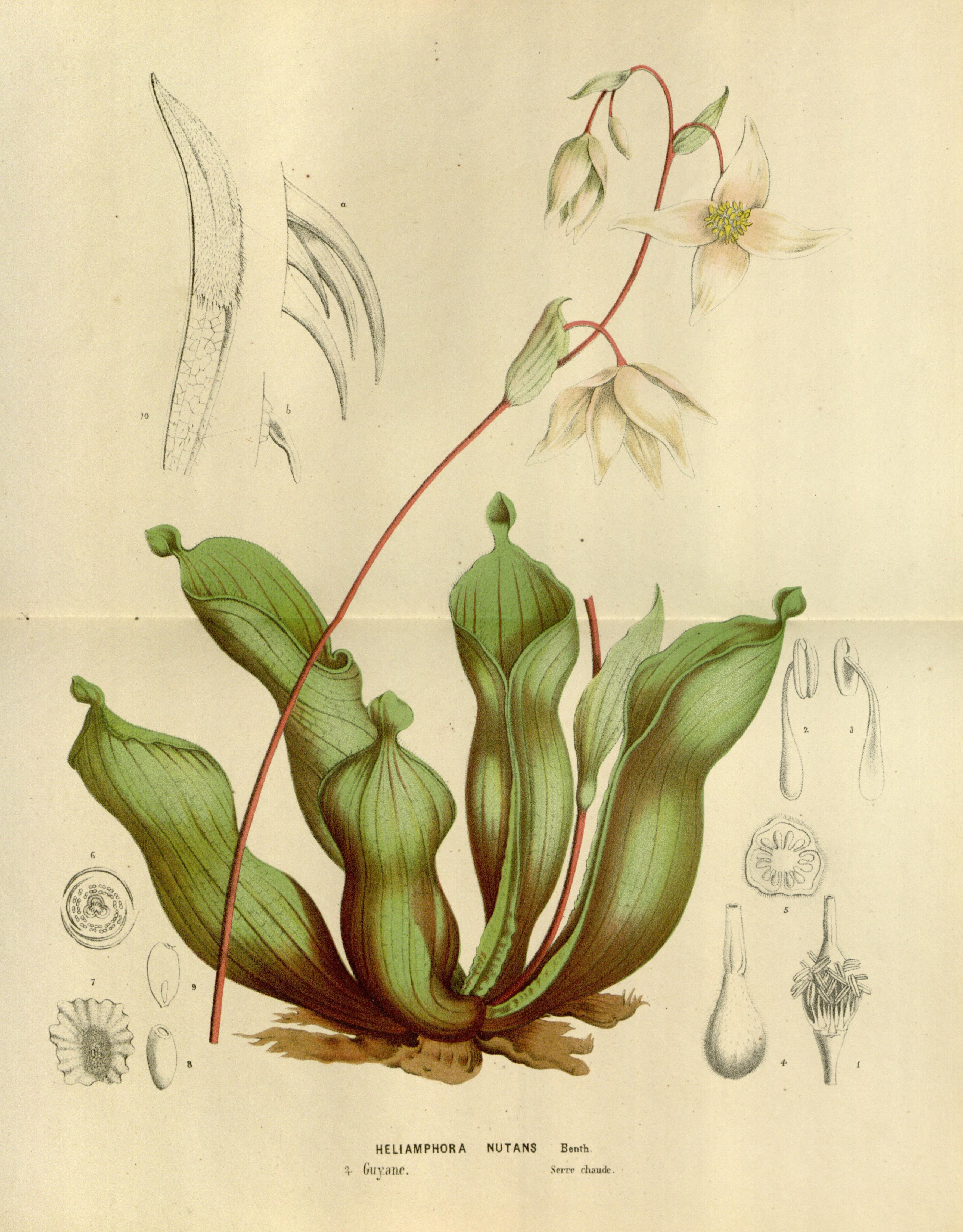 Botanical illustration of Heliamphora nutans from Flore des Serres et des Jardins de l'Europe.